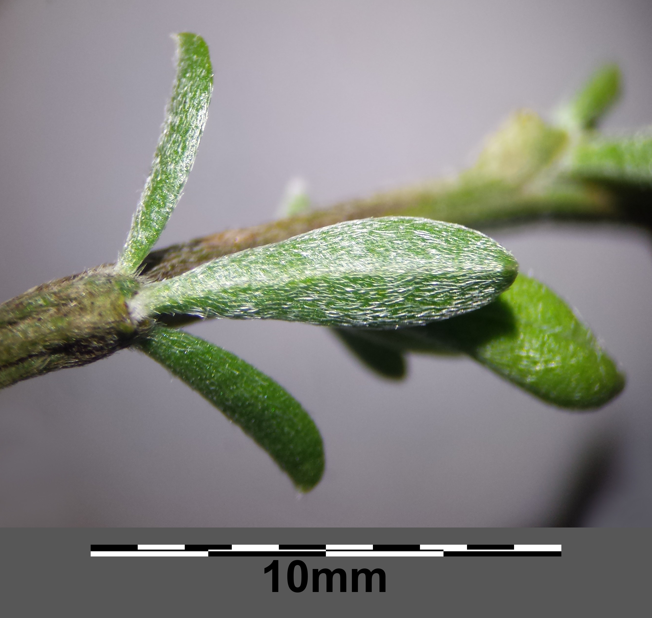 Stem with leaves Taxonym: Genista pilosa ss Fischer et al. EfÖLS 2008 ISBN 978-3-85474-187-9 Location: Gollitsch near Retz, district Hollabrunn, Lower Austria - ca. 325 m a.s.l. Habitat: dry grassland